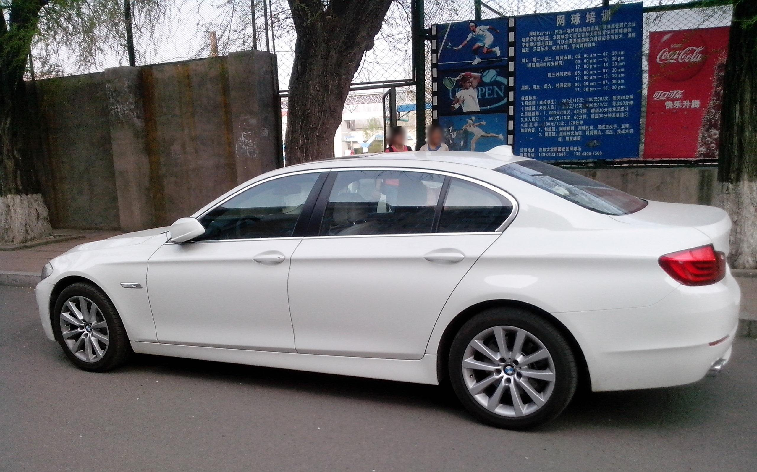 The long-wheelbase BMW 5 series is built specially for Chinese and Mexican market. Its rear door is longer than the standard BMW F10's.